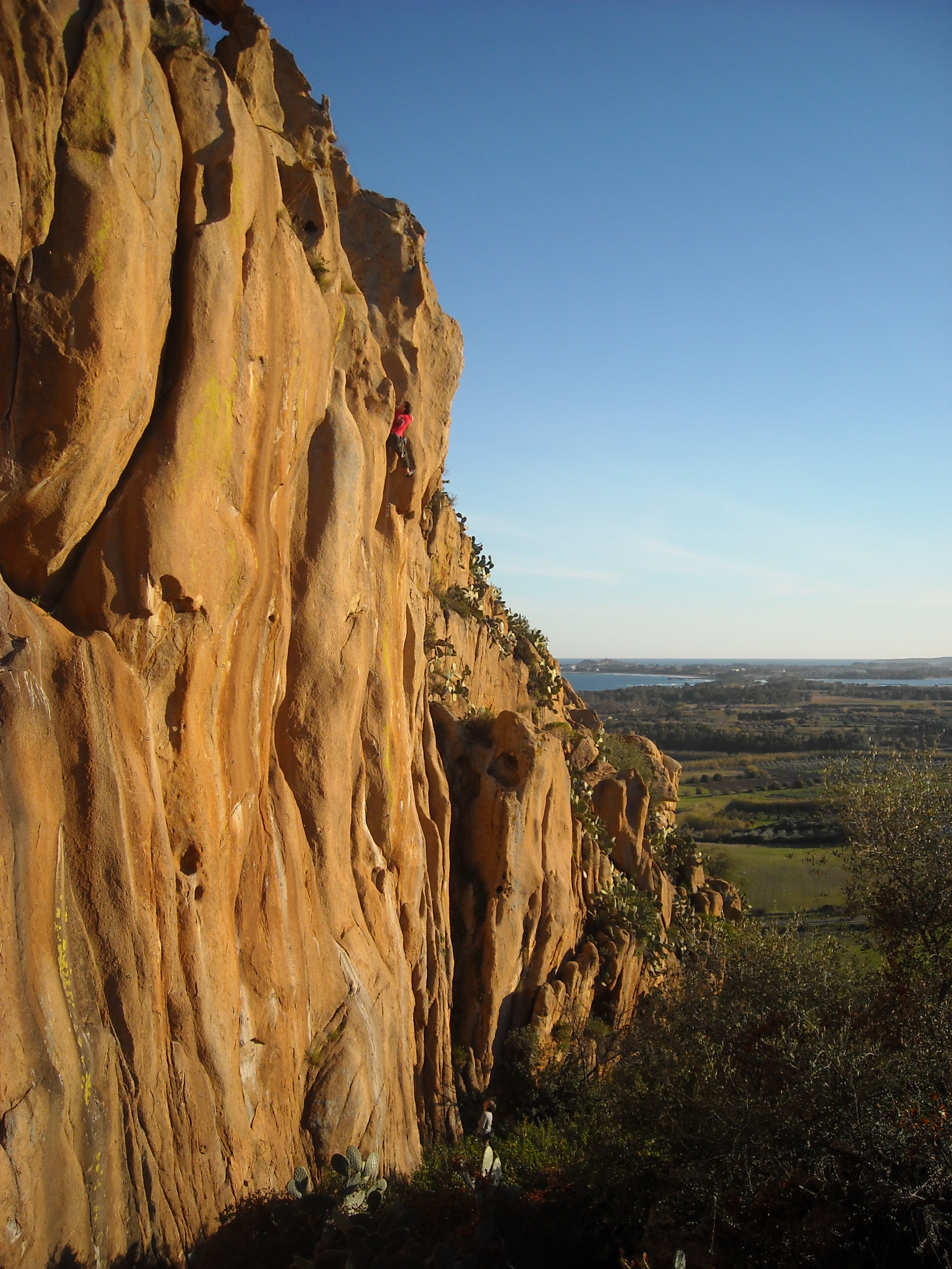 Johnny_Dawes_on_sights_Regalo_da_Babbo_Natale_F7b_at_the_granite_crag_Lucertole_al_Sole,__Lotzorai